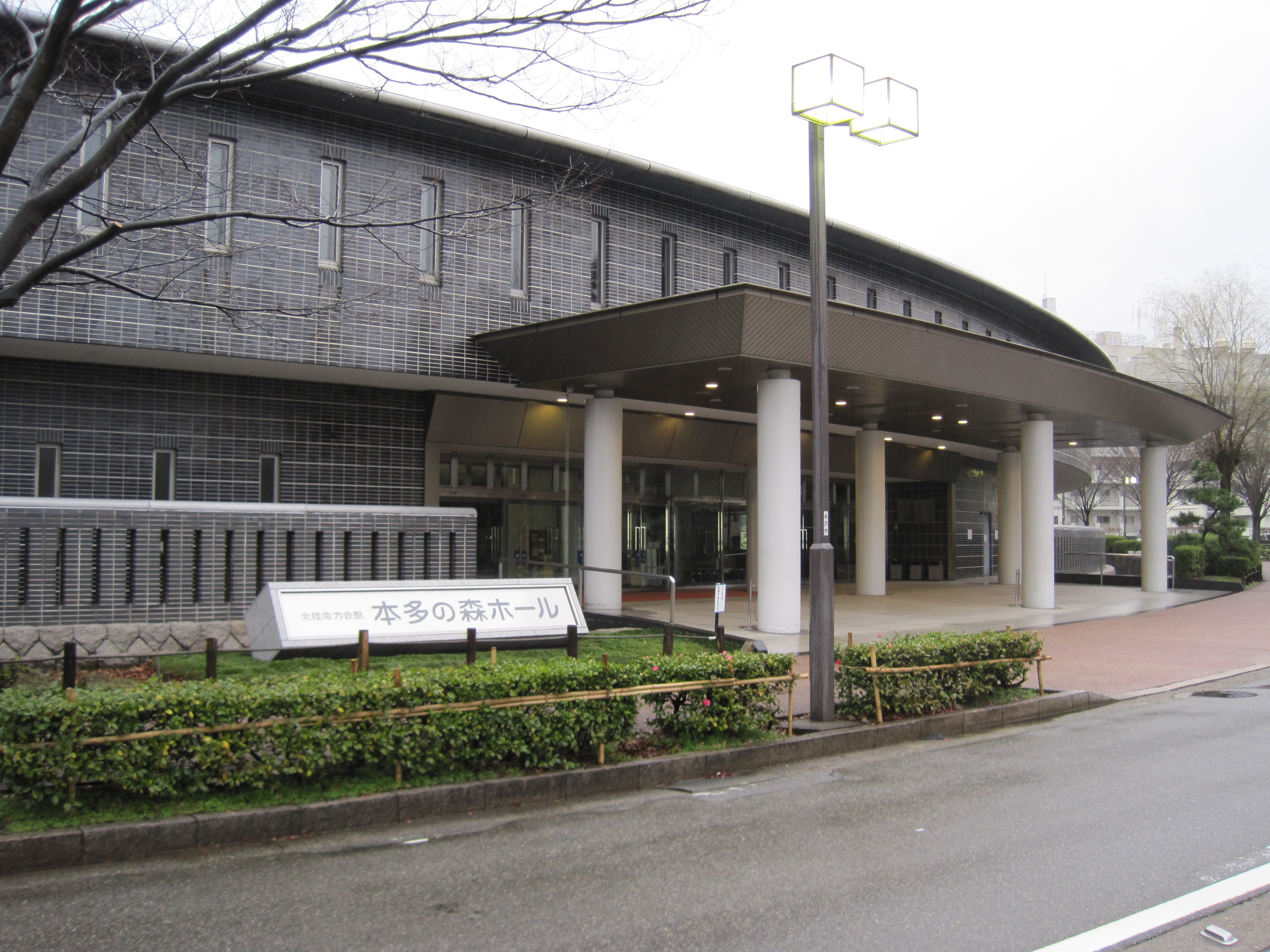 Hondanomori Hall(This hall was designed by Kisho Kurokawa.)